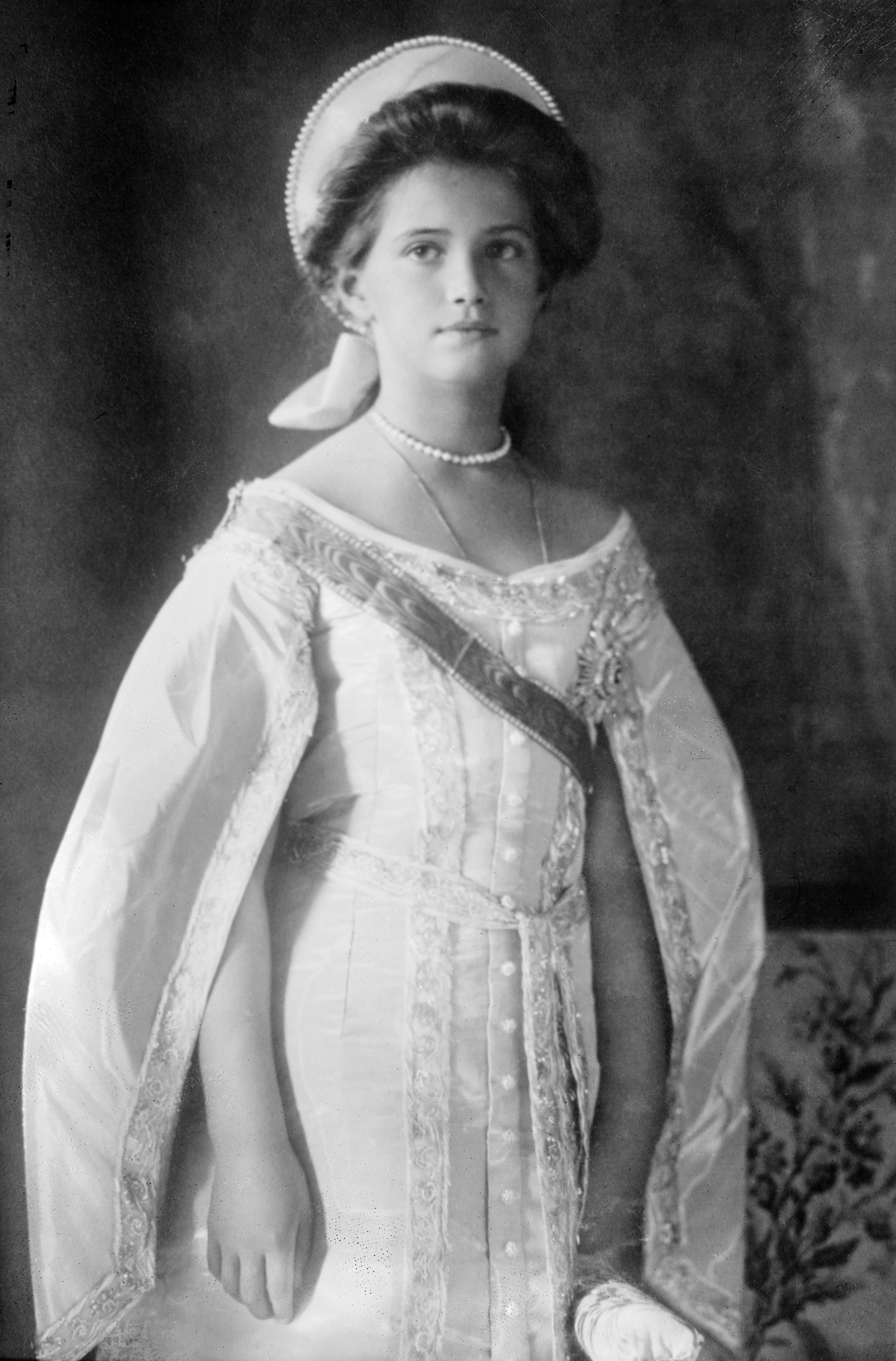 Grand Duchess Maria Nikolaevna of Russia (1899-1918) in court dress in 1910.